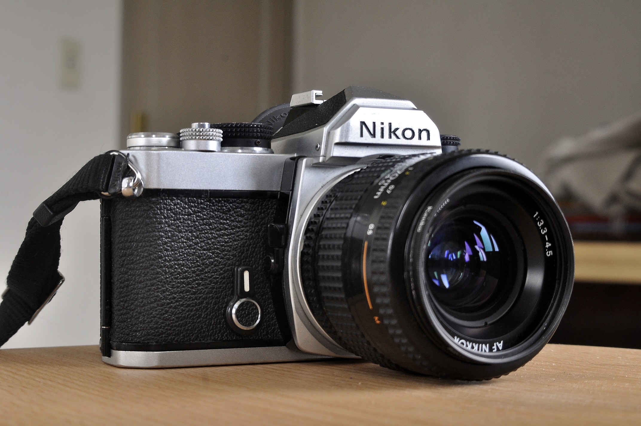 Camera Body:Nikon FM Lens:AF NIKKOR 35-70mm 1:3.3-4.5